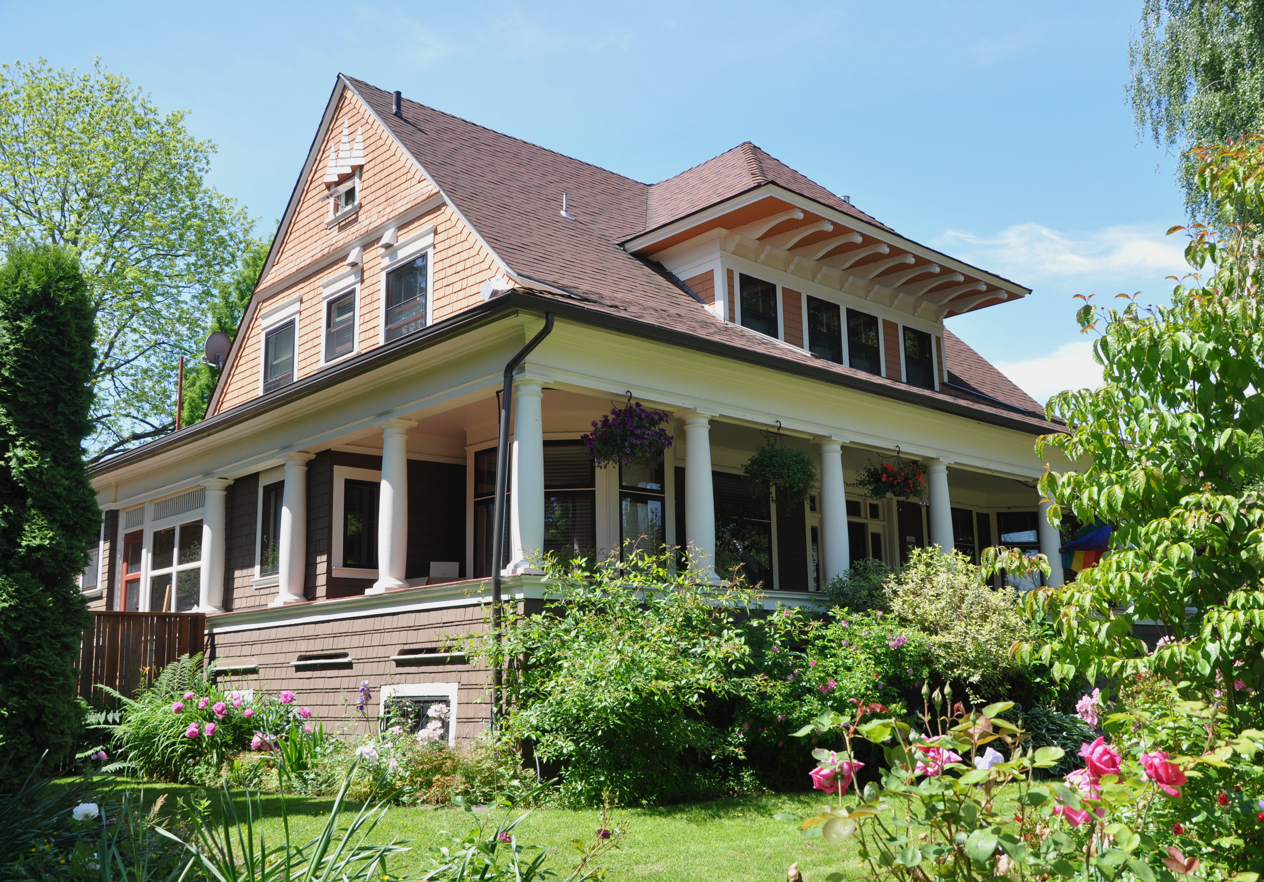 Edward D. Dupont House in Portland in the U.S. state of Oregon. The structure is listed on the National Register of Historic Places.